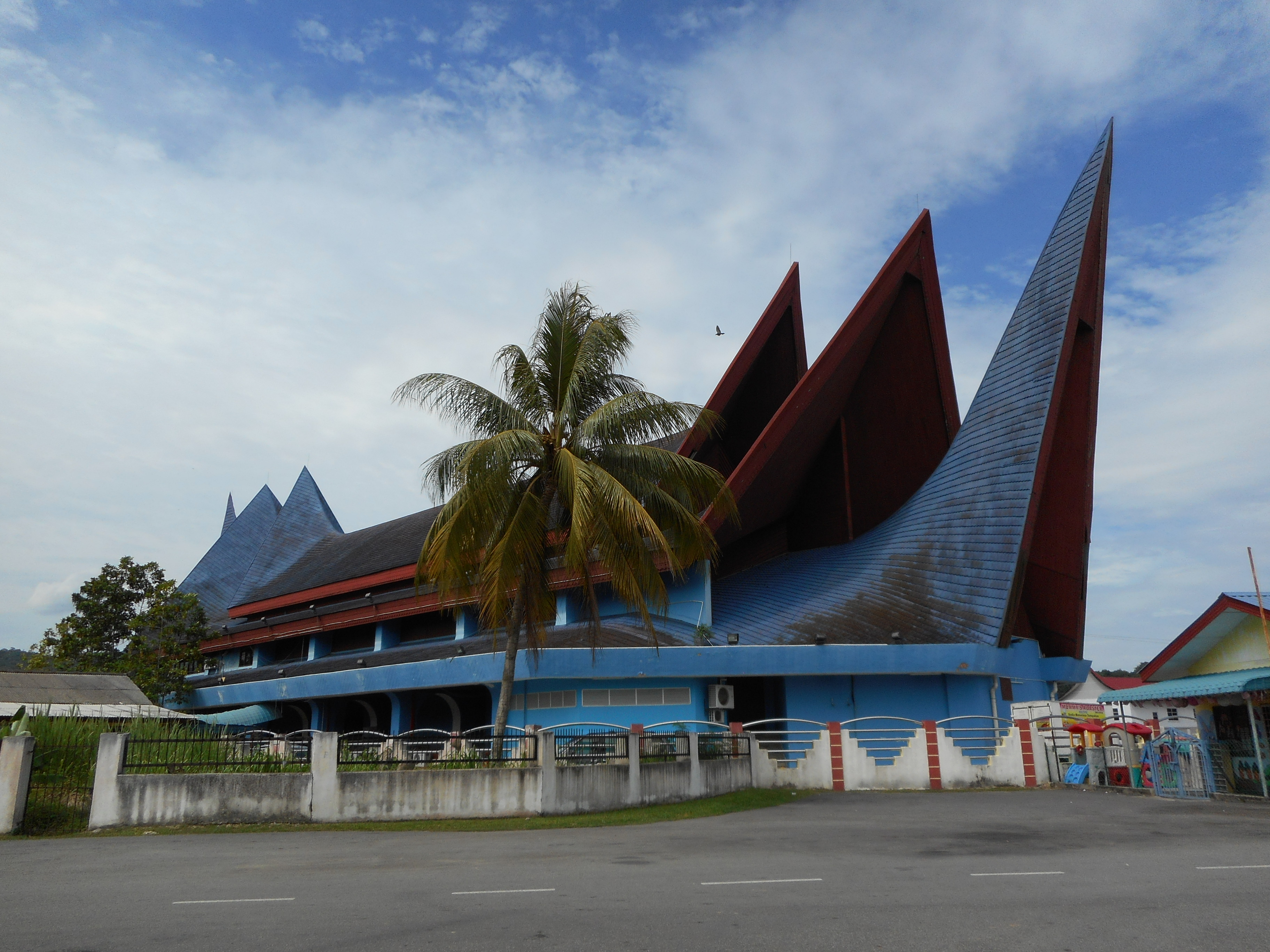 Jelebu District Council, Kuala Klawang, Jelebu, Negeri Sembilan, Malaysia